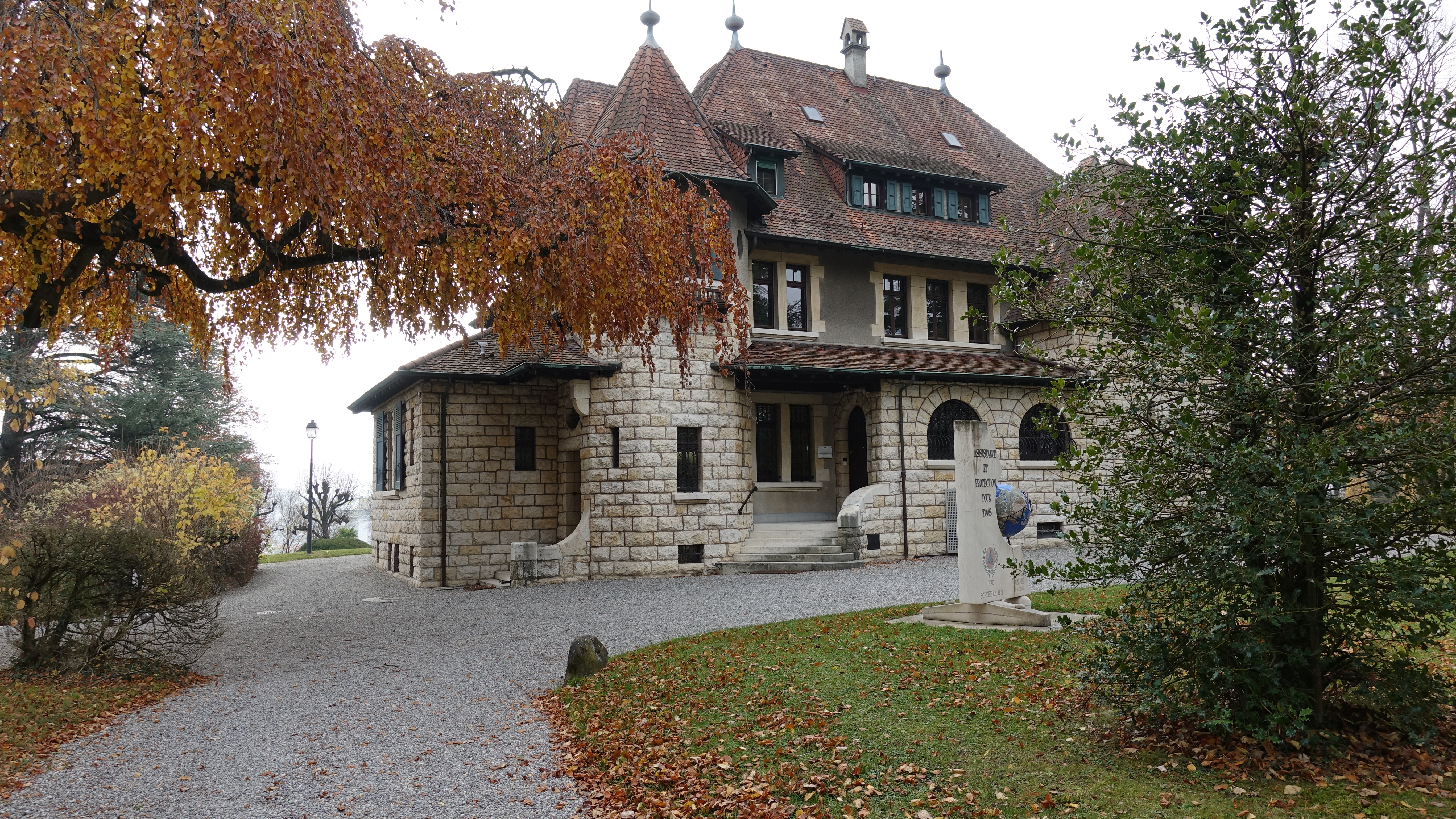 The International Civil Defence Organisation (ICDO) office in Lancy, the Canton of Geneva, Switzerland